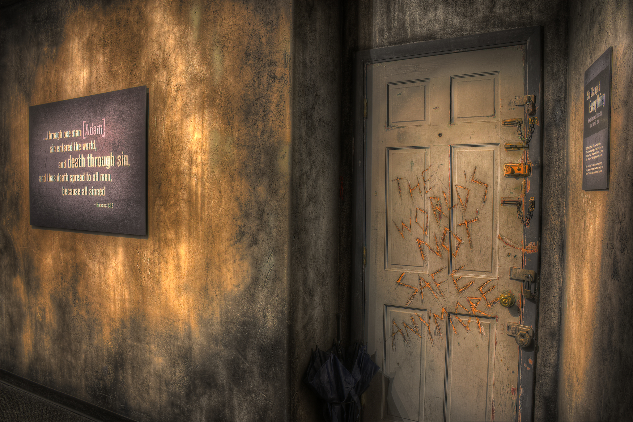 museum exhibit